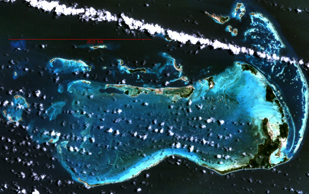 NASA World Wind screenshot of Los Roques, Venezuela